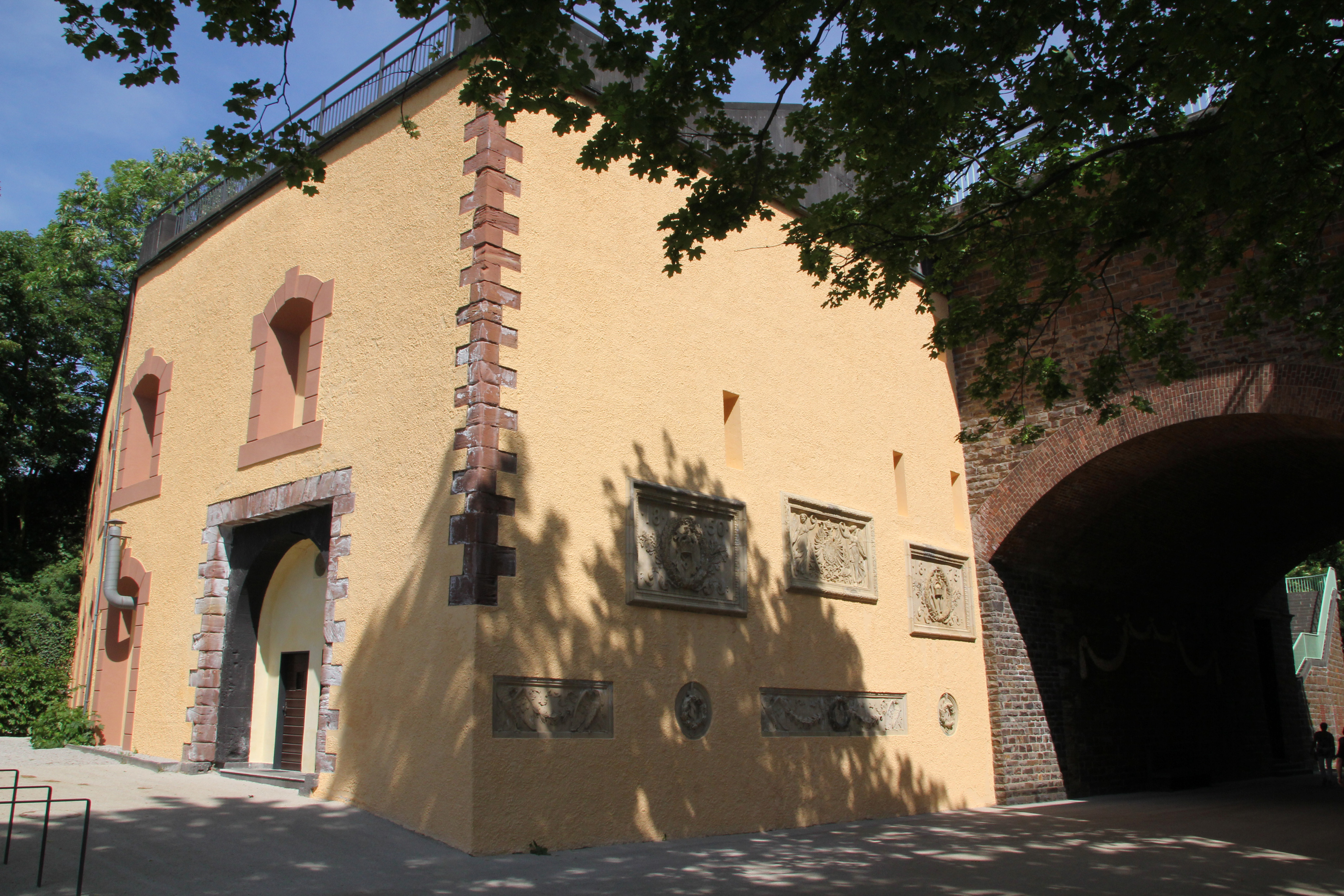 Rhine park in Koblenz